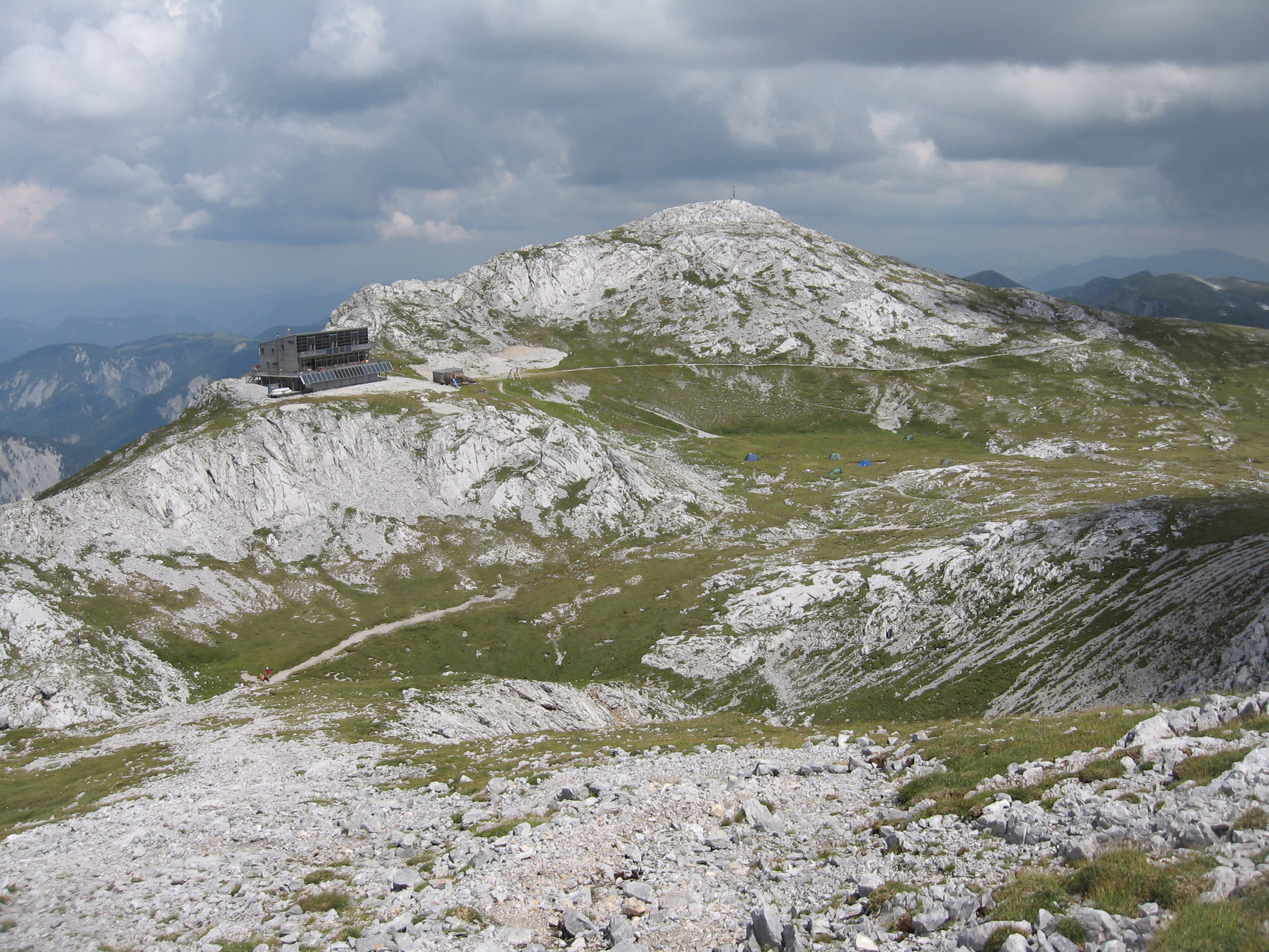 Hochschwabgroup - Schiestlhaus, the main summit of Hochschwab group is behind the fotographer